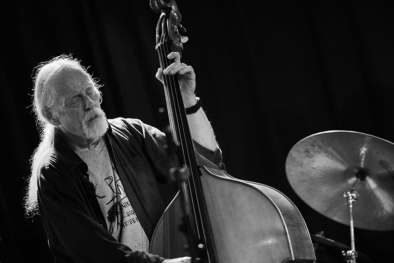 Brian Sandstrom at Copenhagen Jazz Festival 2018